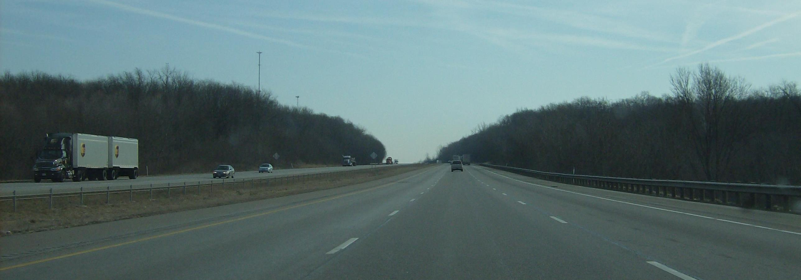 View along Interstate 71 in Jackson Township, Ashland County, Ohio, United States.